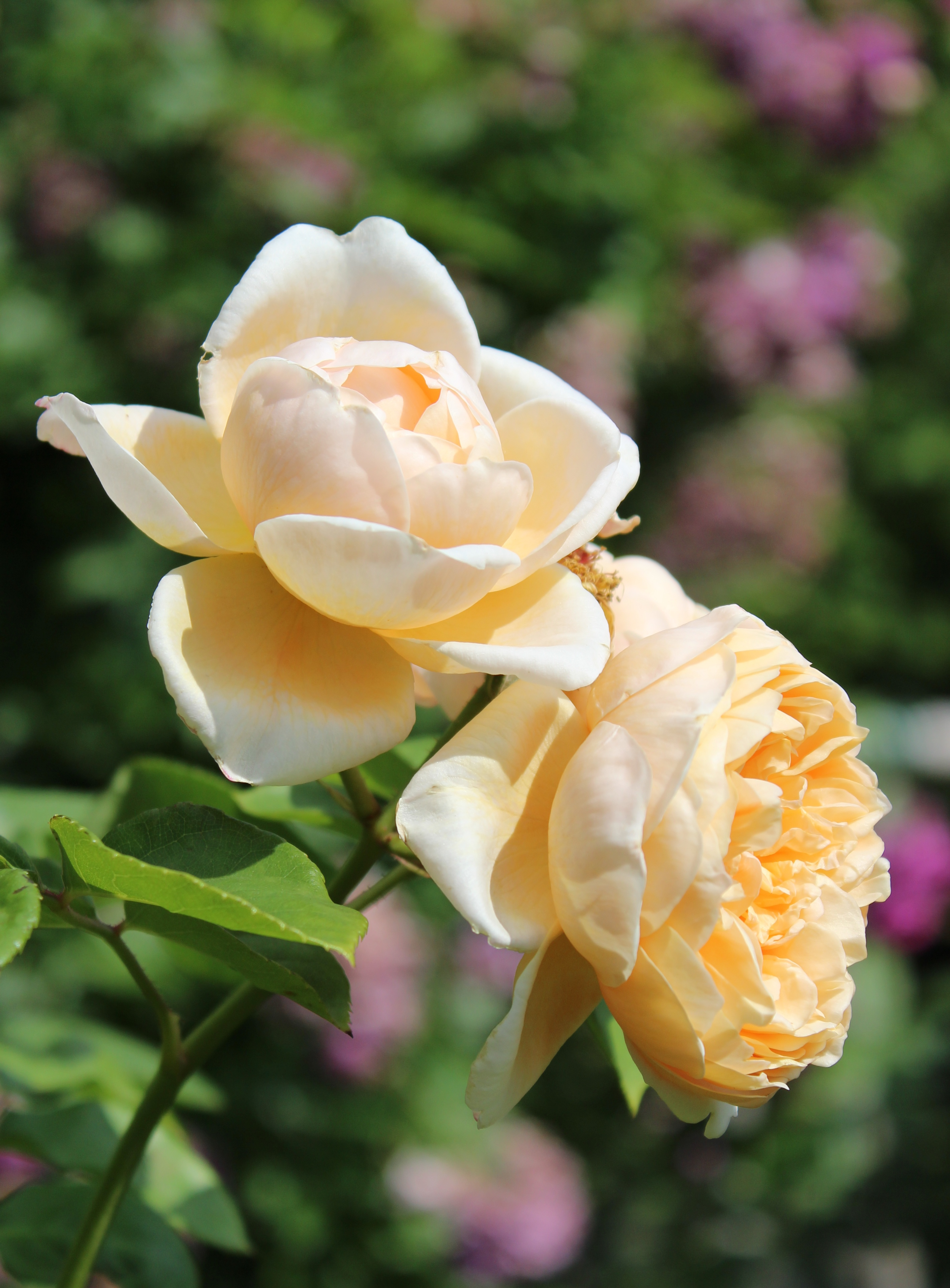 Rosa 'Charlotte' in the Volksgarten in Vienna. Identified by sign.